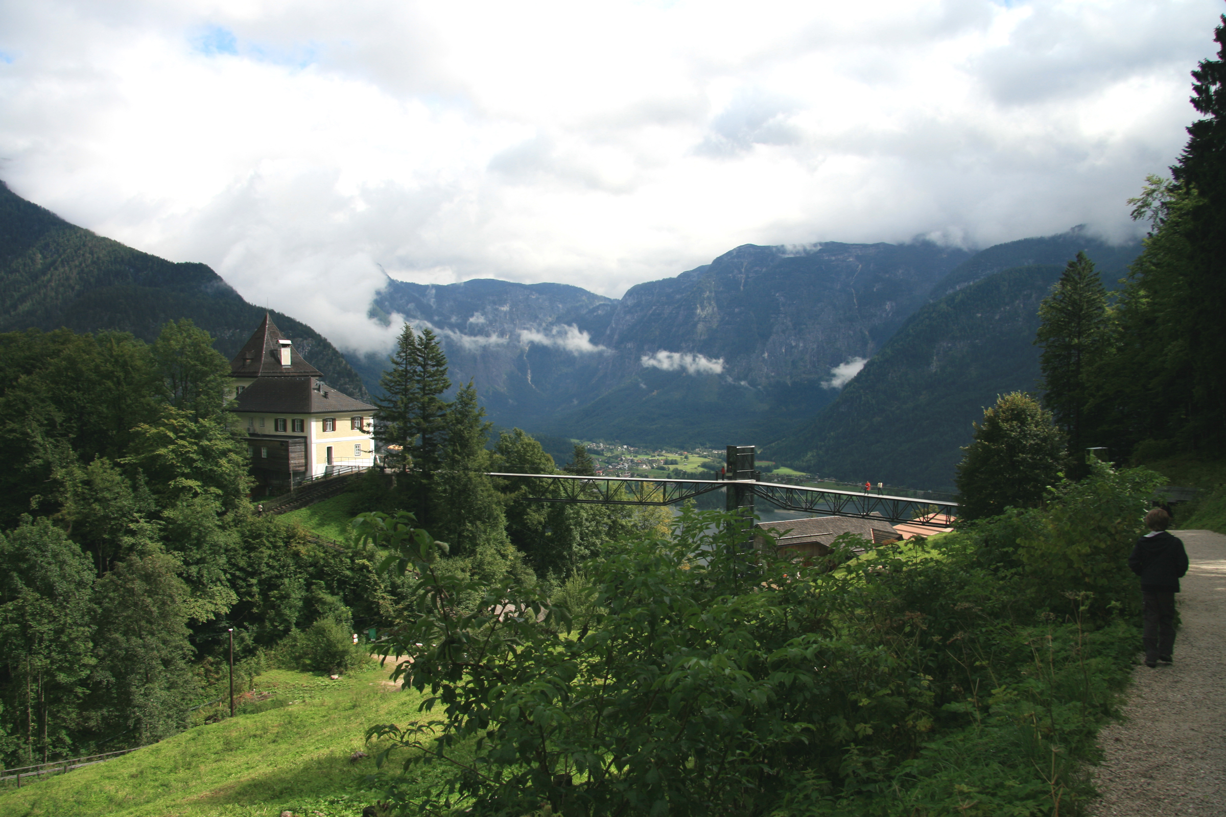 View from upper station of funicular to Obertraun near of Hallstattsee, Upper Austria